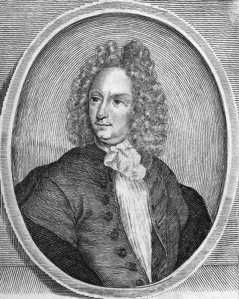 Jean-Léonor Le Gallois de Grimarest (1659-1713), biographer of Molière.